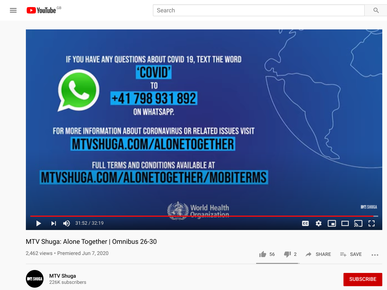 Credits from MTV Shuga Episode 25-30 in 2020 sponsored by WHO